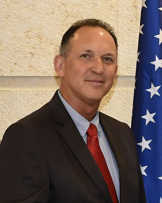 BILATERAL MEETING WITH HEAD OF MASHAV Photo credit: Matty STERN/U.S. Embassy Jerusalem